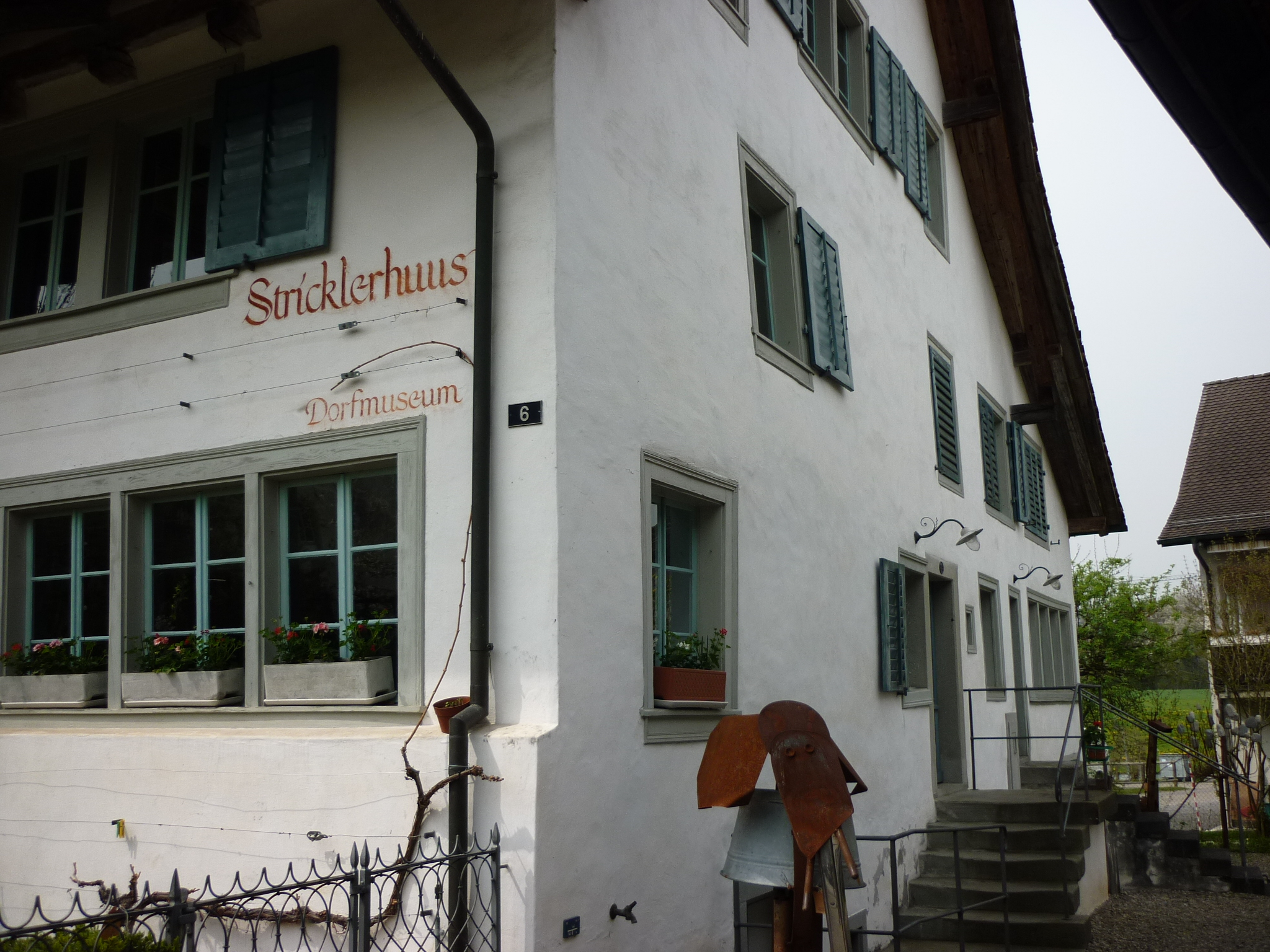 Village museum, Hombrechtikon ZH, Switzerland